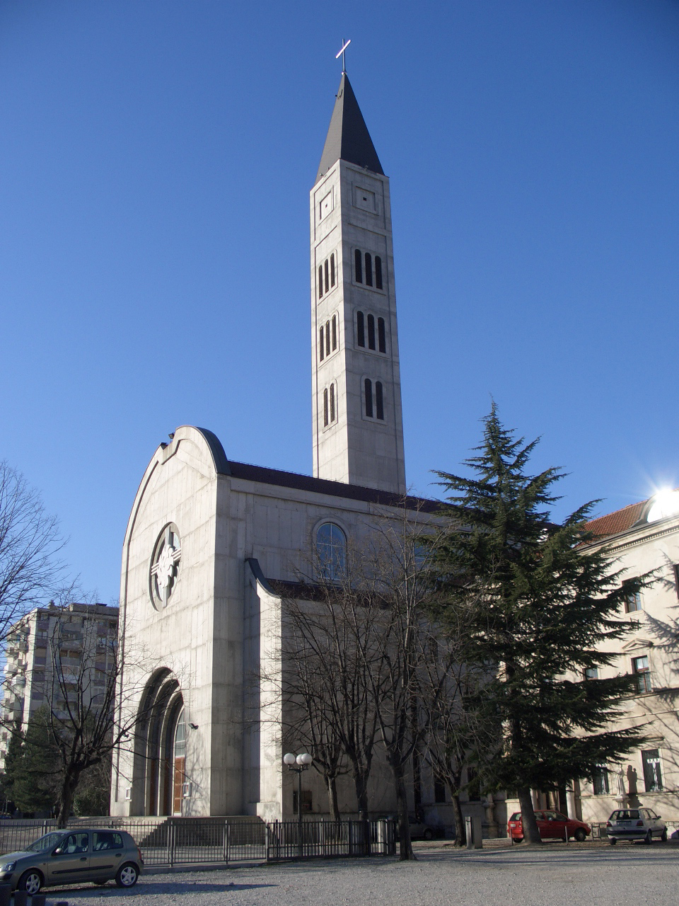 Roman Catholic Church of St. Peter and Paul in Mostar, Bosnia and Herzegovina